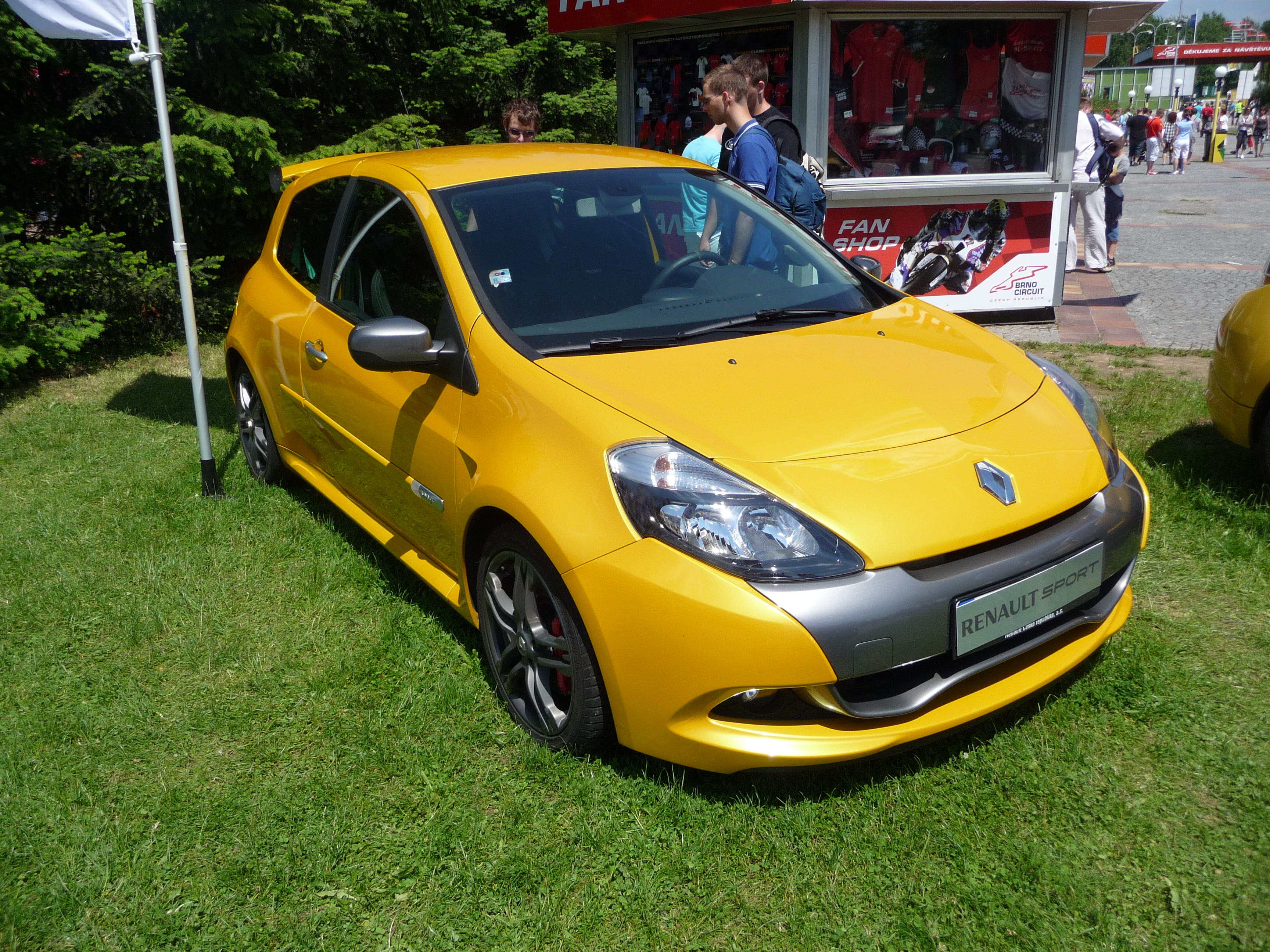 Renault Clio, 2010 Brno World Series by Renault